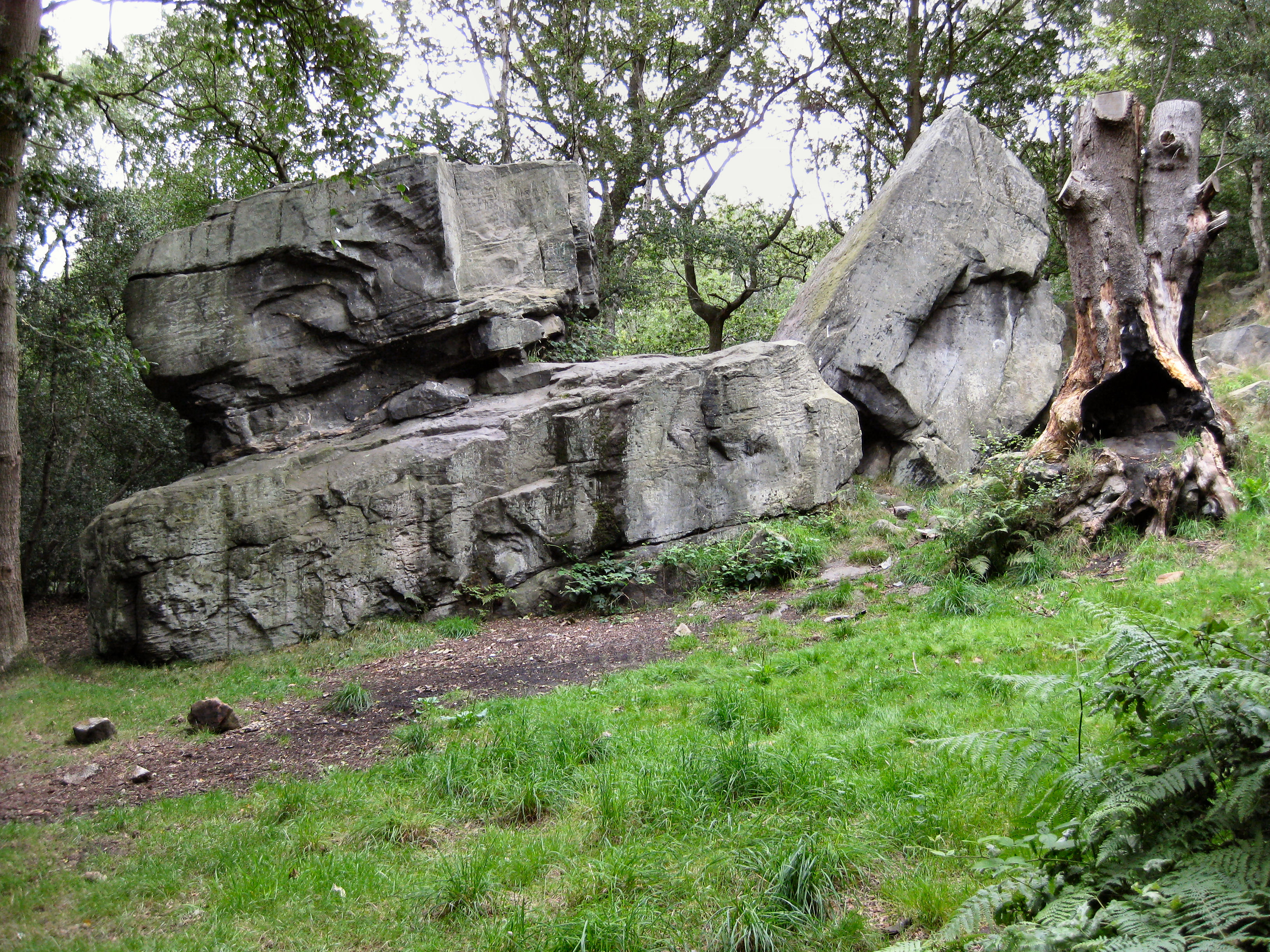 Adel Crag, an outcropping in North Leeds, also known as Alwoodley Crag. Between Stairfoot Lane and Crag Lane, Leeds LS17. Close to the Meanwood Valley Trail.In the 19th century a starting point for fox hunts.